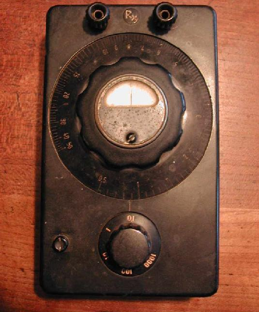 A Wheatstone bridge